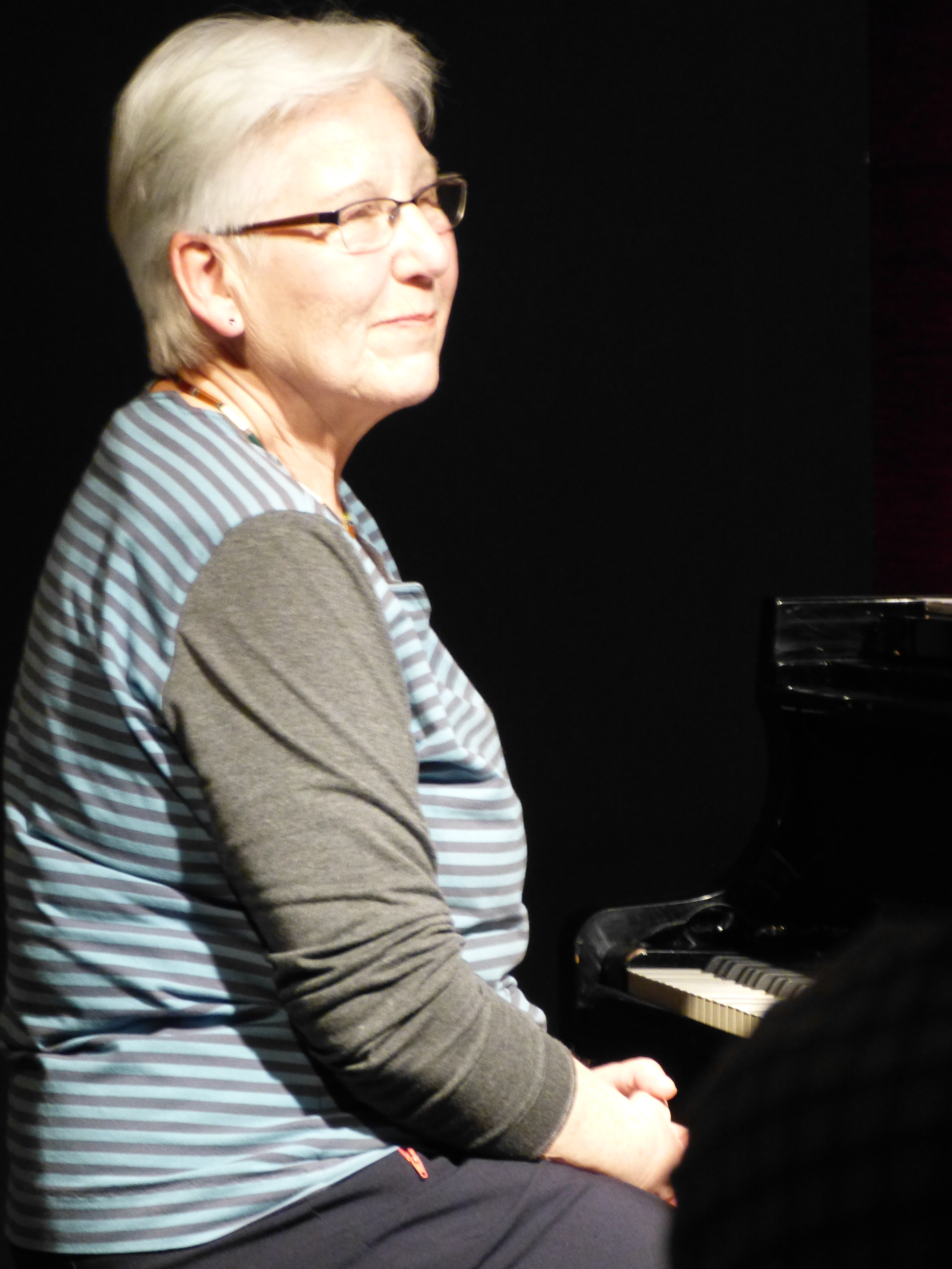 Irene Schweizer in the concert at Loft (Cologne), Germany, February 7th, 2014